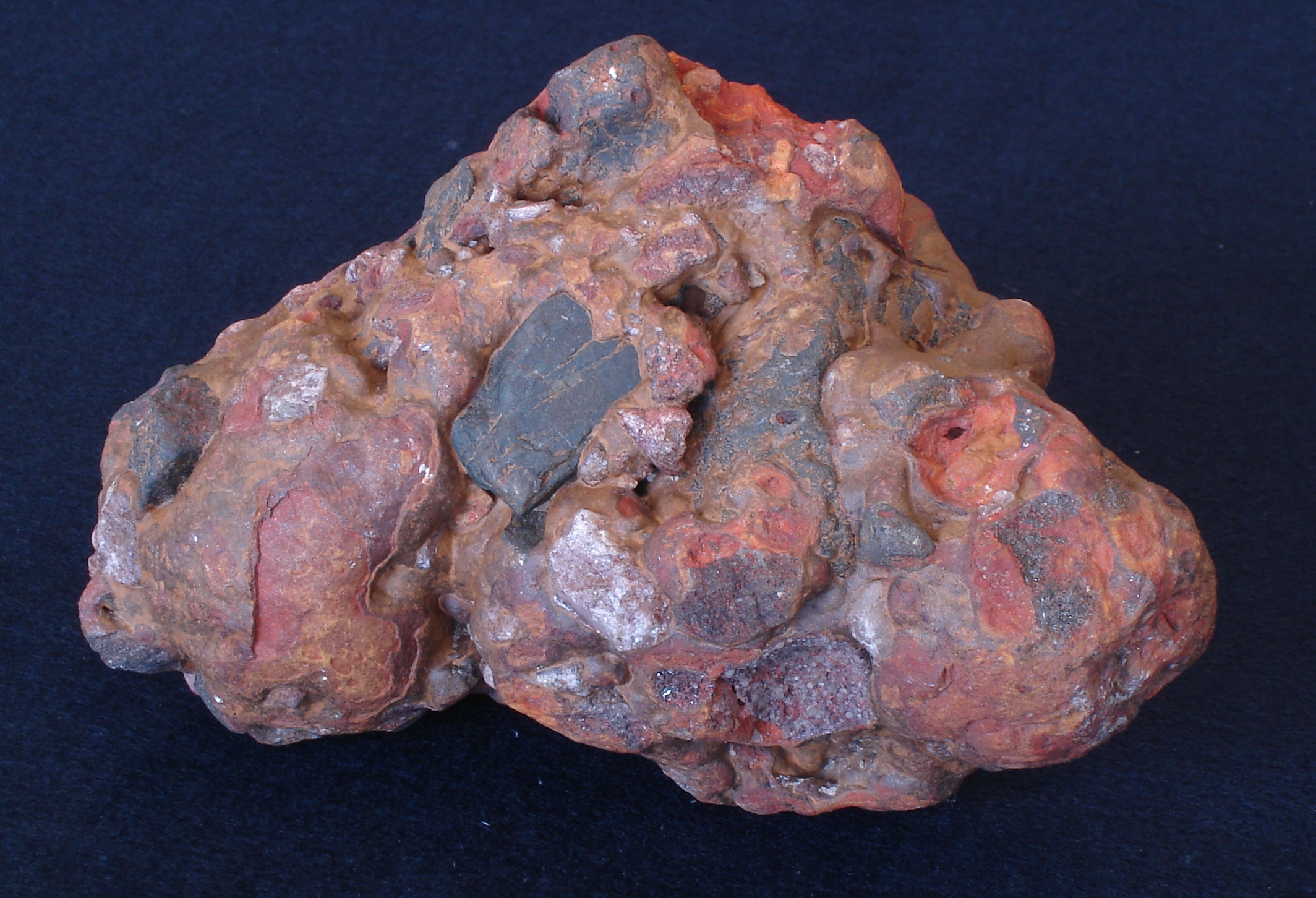 Lateritic concretion Origin: Minas Gerais, Brasil